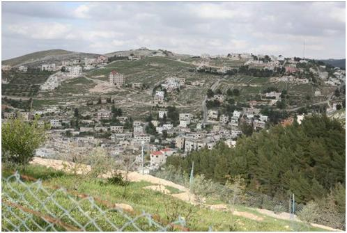 Overview of Fuheis